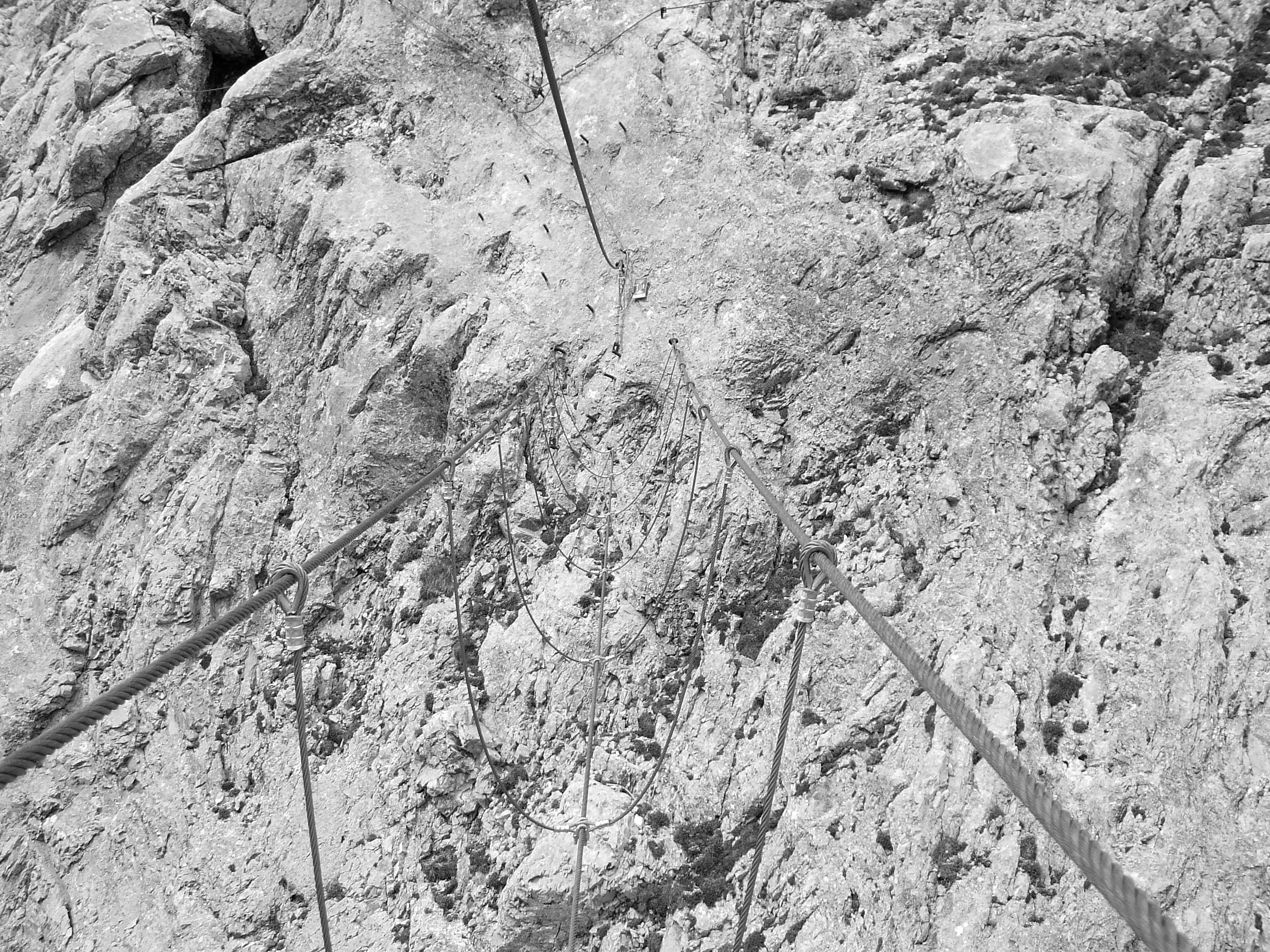 Ropeway (bridge) on the Kaiserschild fixed rope route in Austria